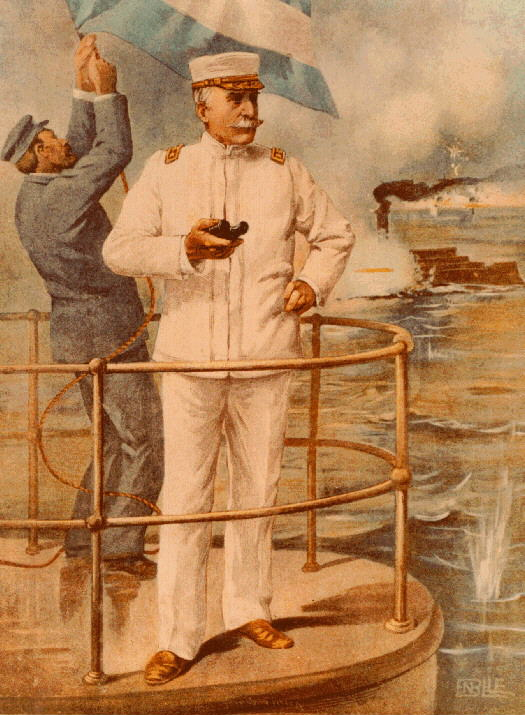 "Admiral Dewey at the Battle of Manila" Contemporary colored print depicting Commodore George Dewey on the bridge of his flagship, USS Olympia, during the Battle of Manila Bay, 1 May 1898. Courtesy of the Naval Historical Foundation, Collection of C.J. Dutreaux. Original caption: "Photo # NH 84510-KN Admiral Dewey at the battle of Manila"